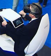 Uniti Sweden showcased its steer-by-wire system at the 2016 CeBit edition.